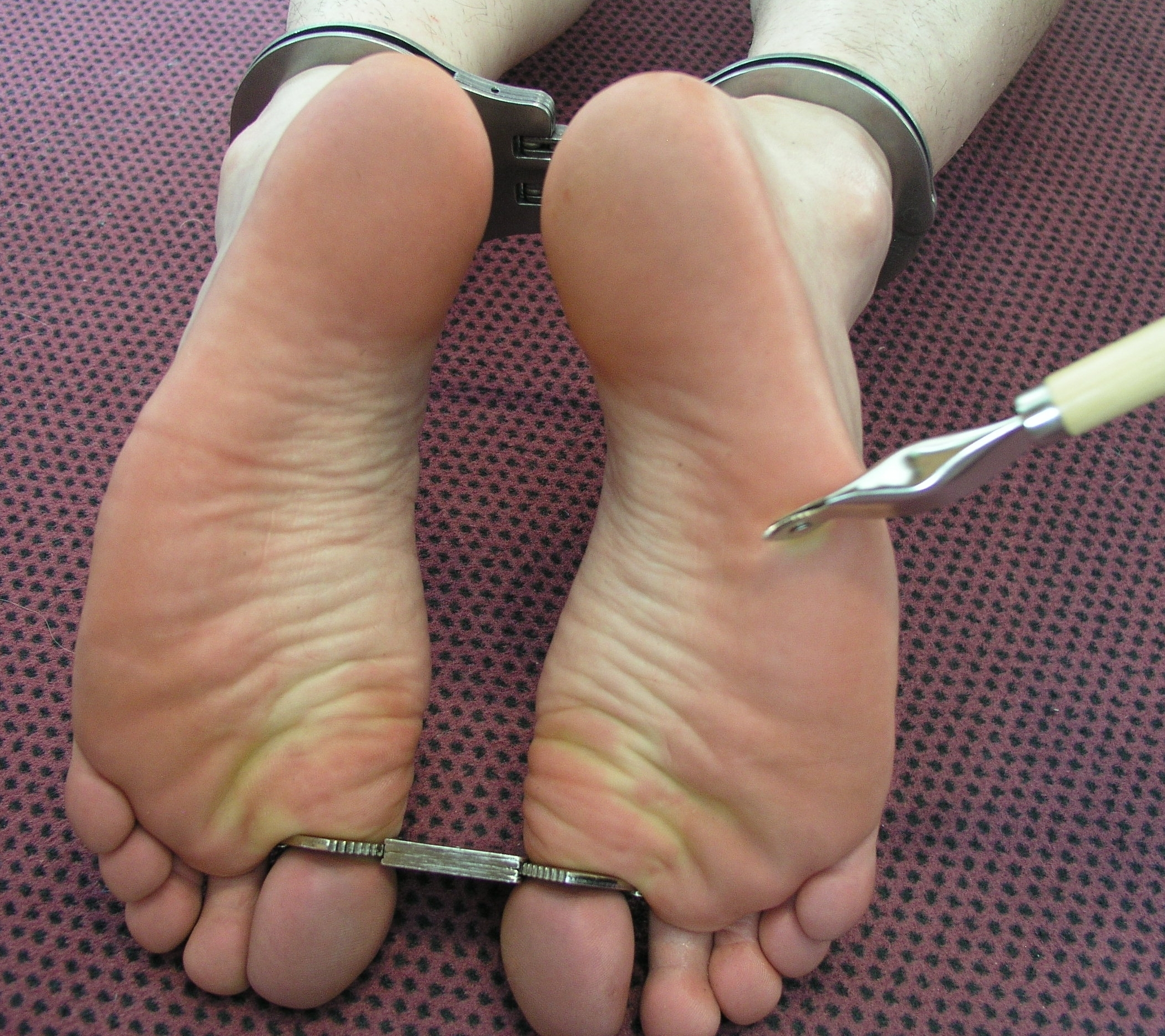 cuffed ankles and toes